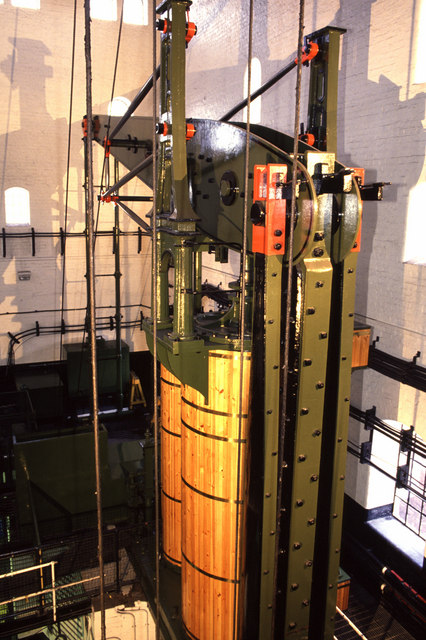 The "Giant Grasshopper" This is the surviving one of two huge non-rotative grasshopper beam pumping engines used to drain the Mersey Rail Tunnel. It has now been restored, can be operated by hydraulic power and is marketed as the "Giant Grasshopper". The tunnel is about 200' straight down below the near end of this huge machine.